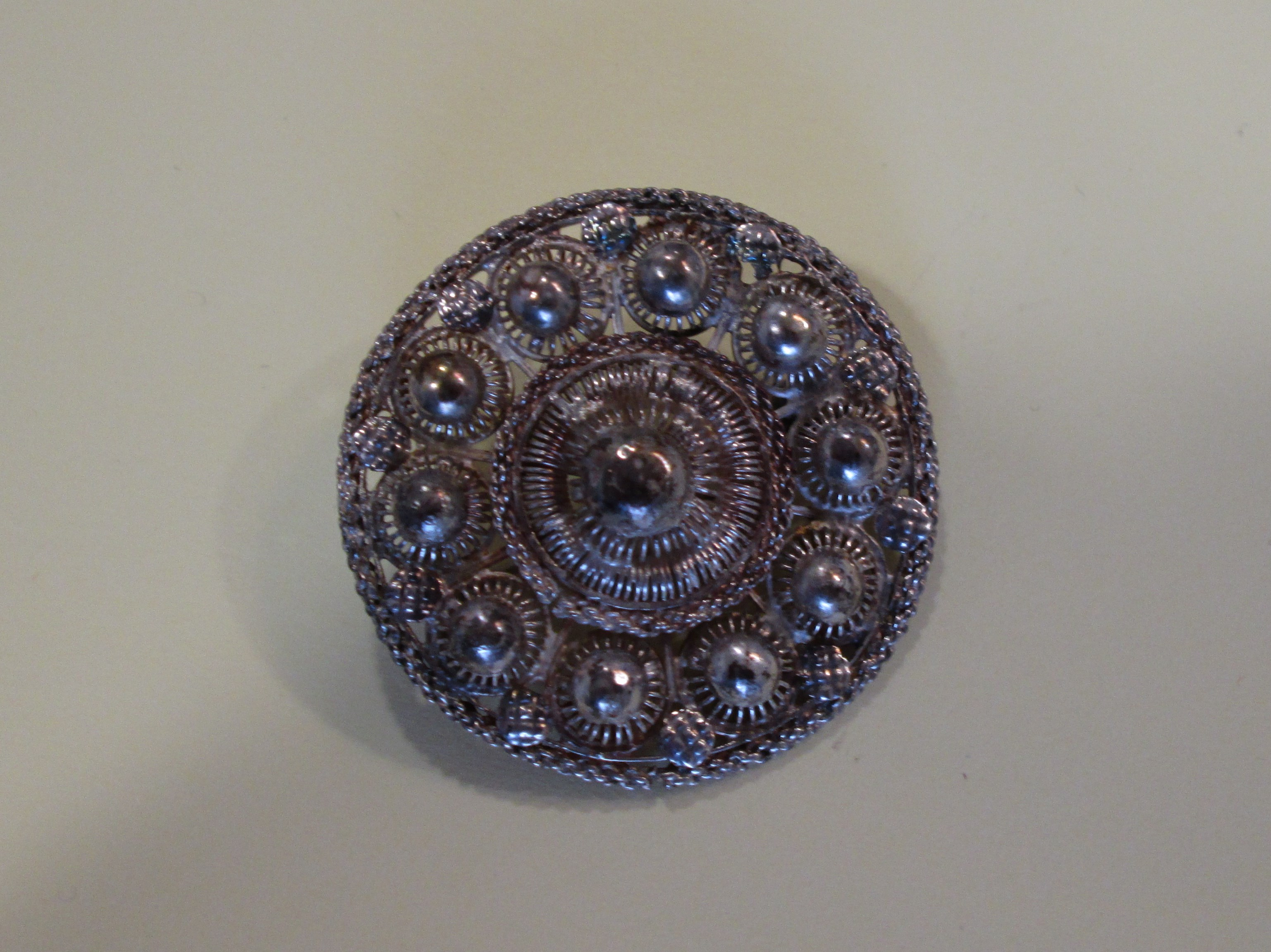 Zeeuwse knoop brooch – a traditional Dutch jewel